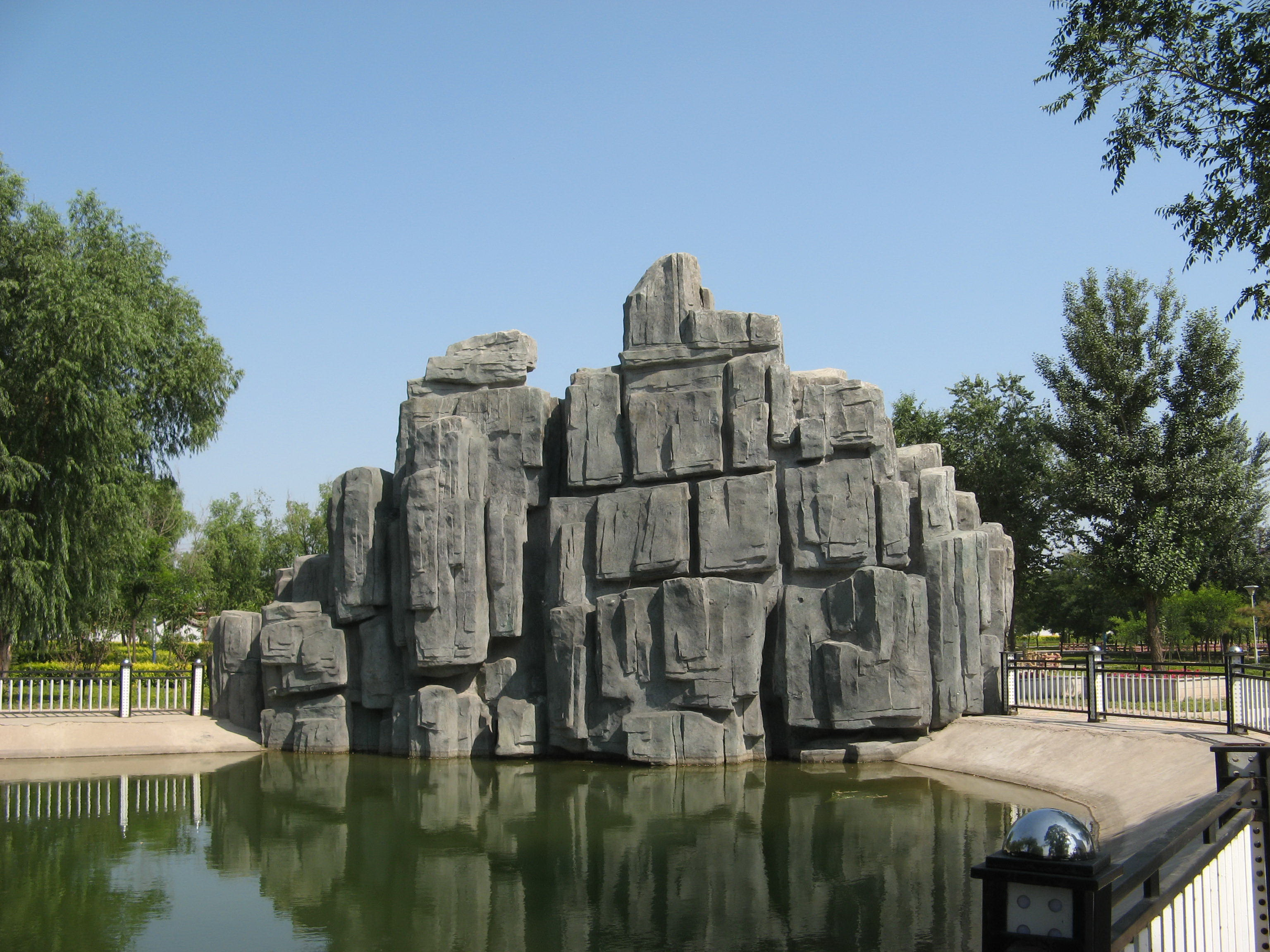 People's Park, Huairen, Shanxi, China中文（中国大陆）: 中国山西省怀仁县人民公园